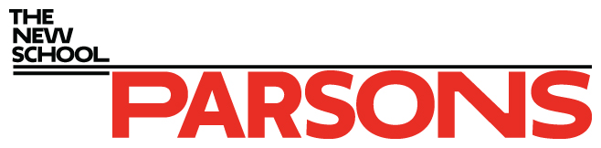 Parsons The New School for Design Logo